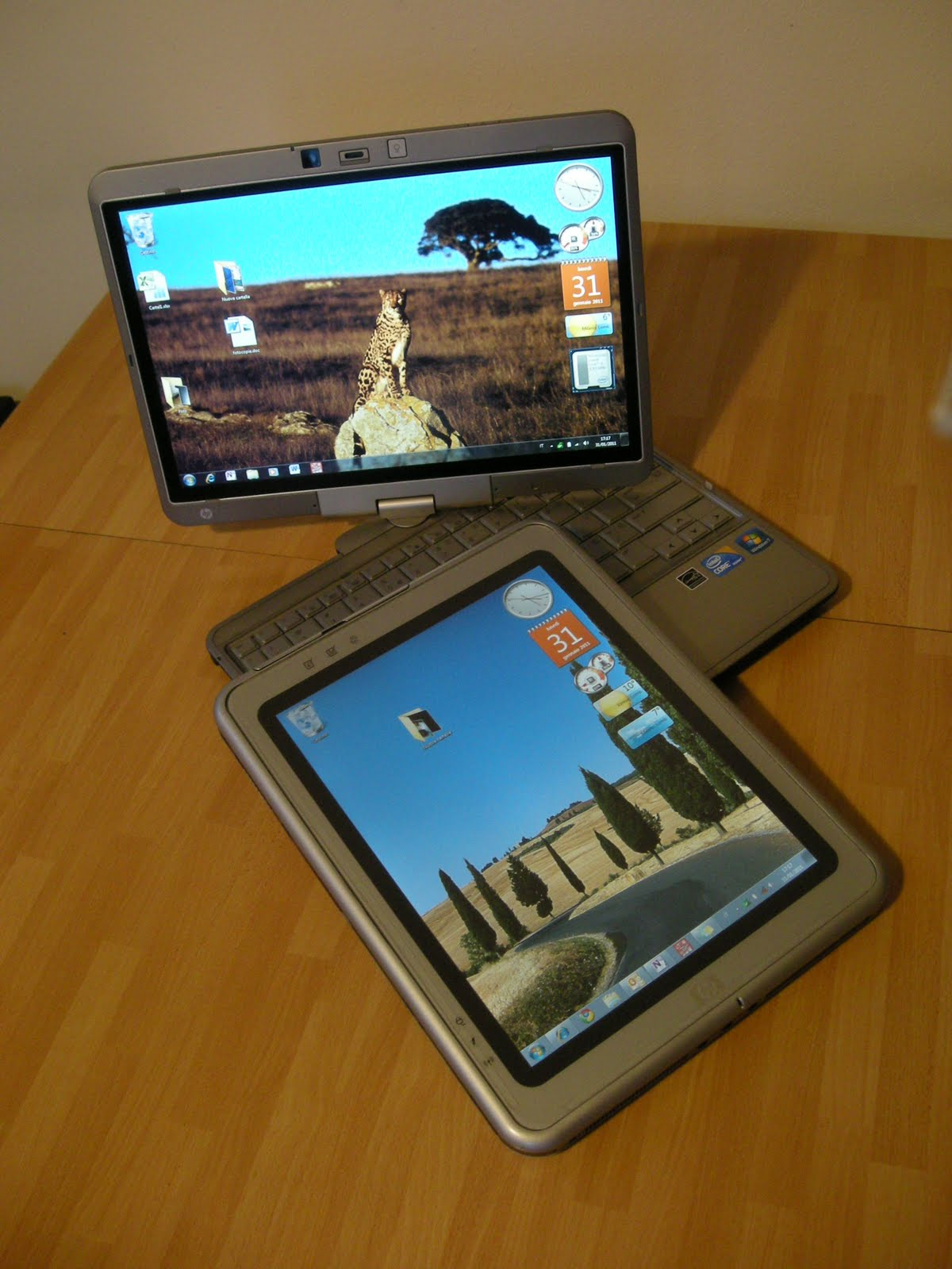 A convertible Tablet PC (HP Elitebook 2740p) and a slate Tablet PC (HP Compaq tc1100).